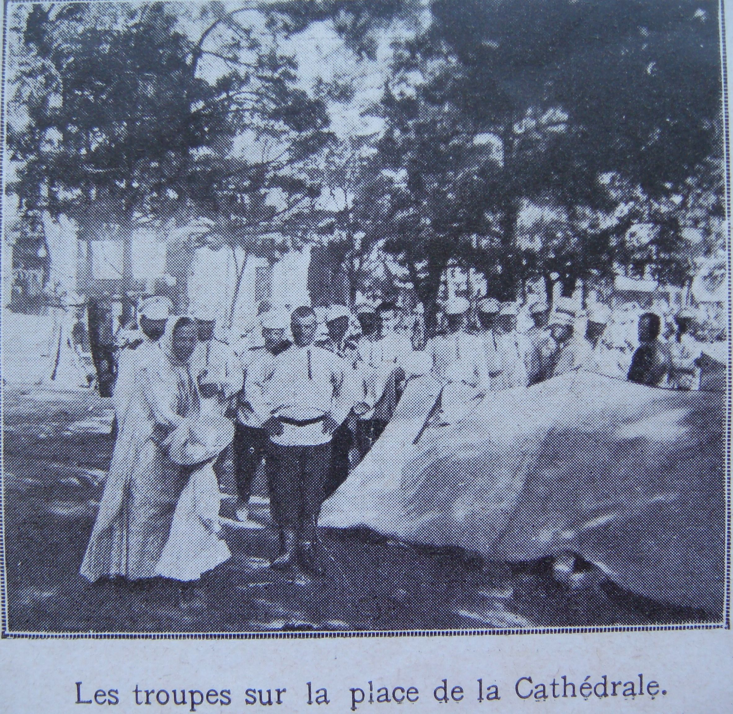 Potemkin mutiny. Odessa. Russian Imperial Army troops at Cathedral square during unrests in Odessa. June 1905